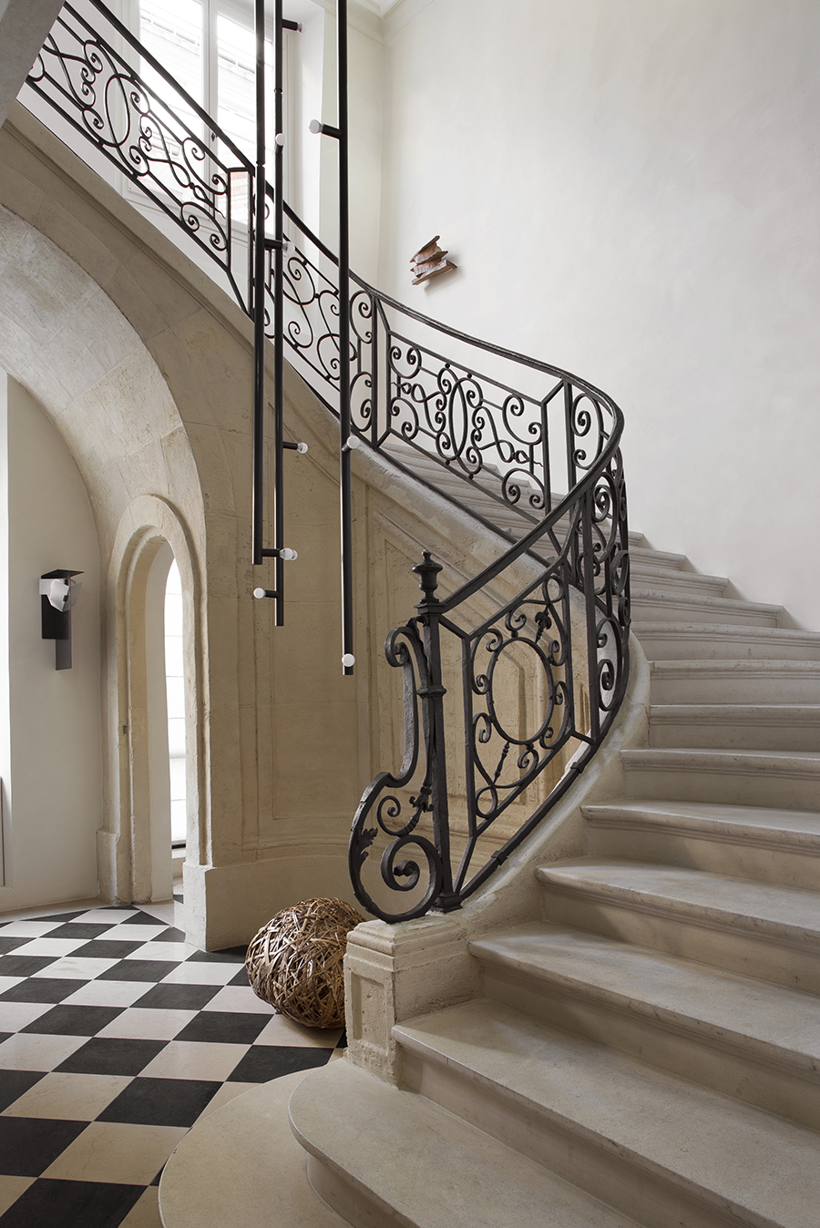 Maison Pierre Yovanovitch